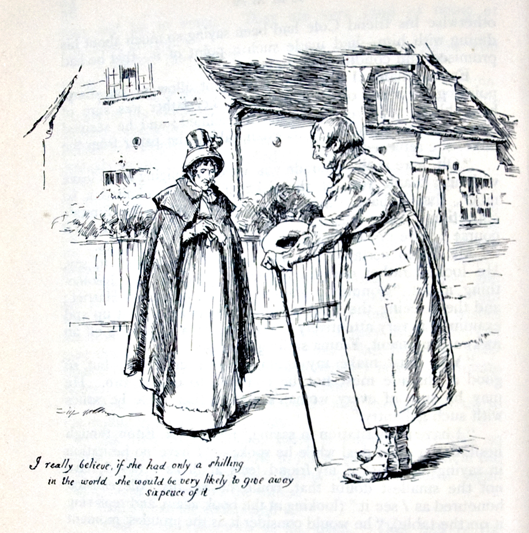 "I really believe if she had only a shilling in the world she would be very likely to give away sixpence of it" - Emma commenting on Miss Bates. Austen, Jane. Emma. London: George Allen, 1898, page 86.